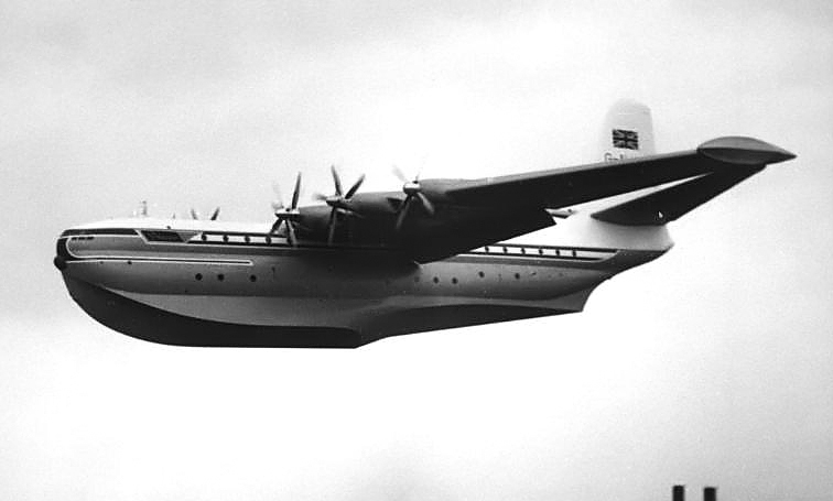 Saunders Roe Princess G-ALUN flypast at the Farnborough SBAC Show